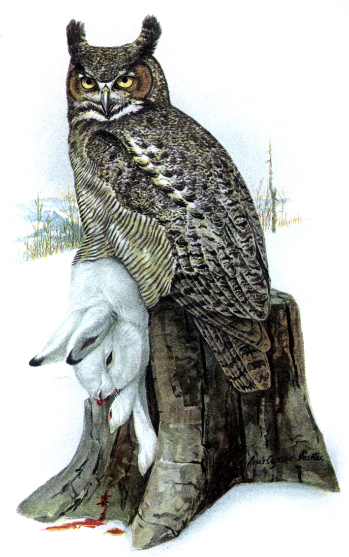 Great Horned Owl, Bubo virginianus chromolithograph